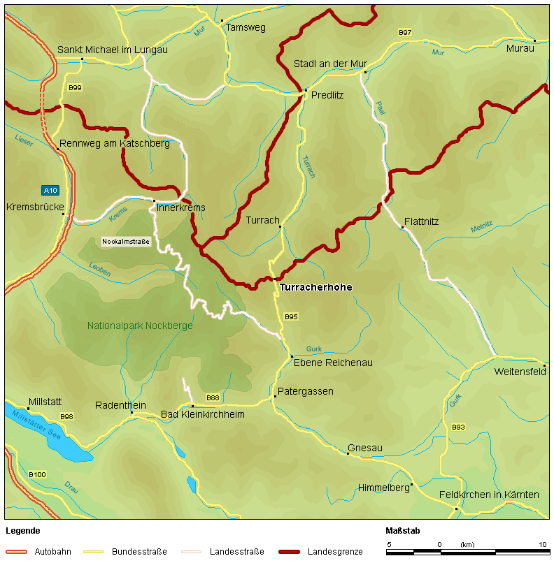 surroundings of Turracherhöhe, Carinthia, Austria